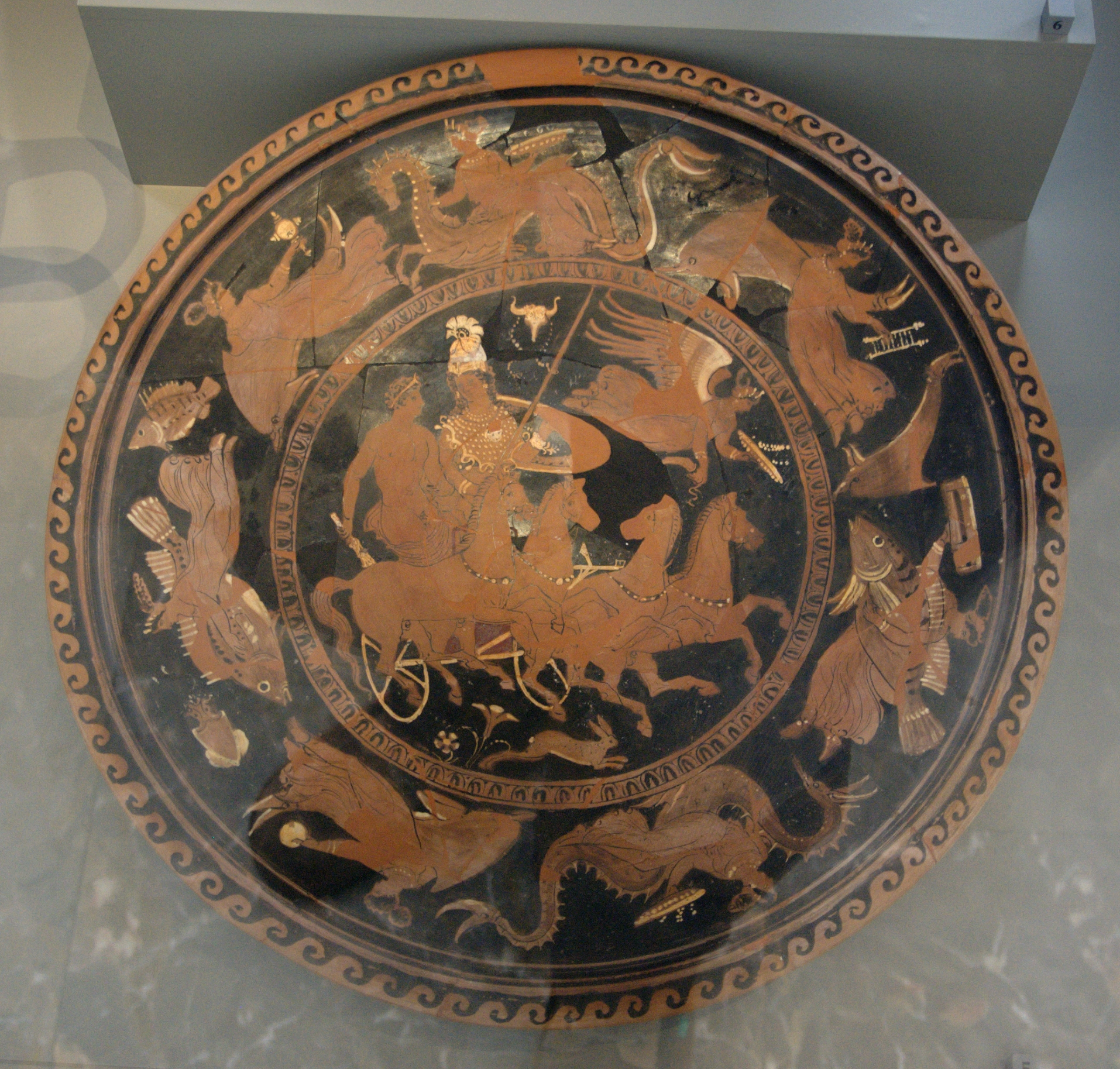 Heracles' apotheosis. Apulian red-figure dish, ca. 340 BC.